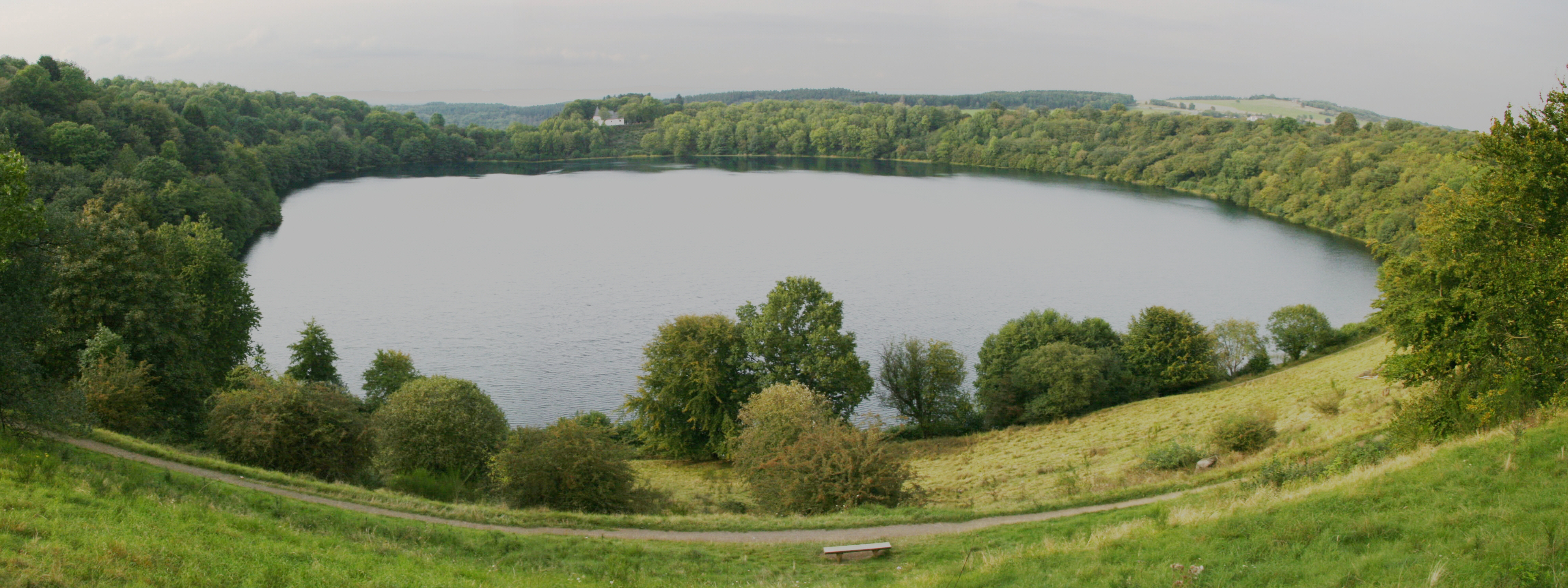 Weinfelder Maar or Totenmaar near Daun, district Vulkaneifel, Rhineland-Palatinate, Germany